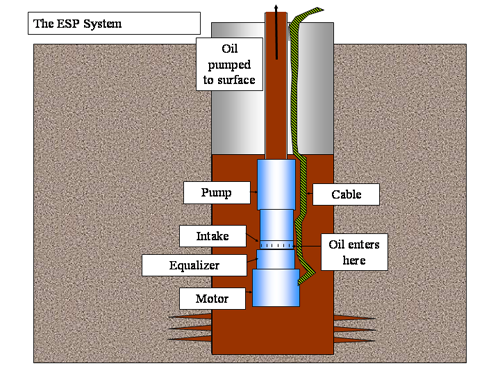 Diagram of an Electrical Submersible Pump.